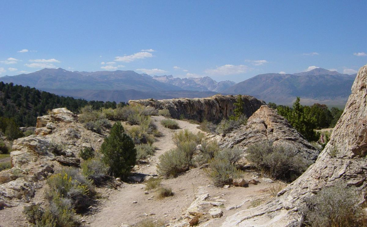 Travertine Hot Springs (1200px)